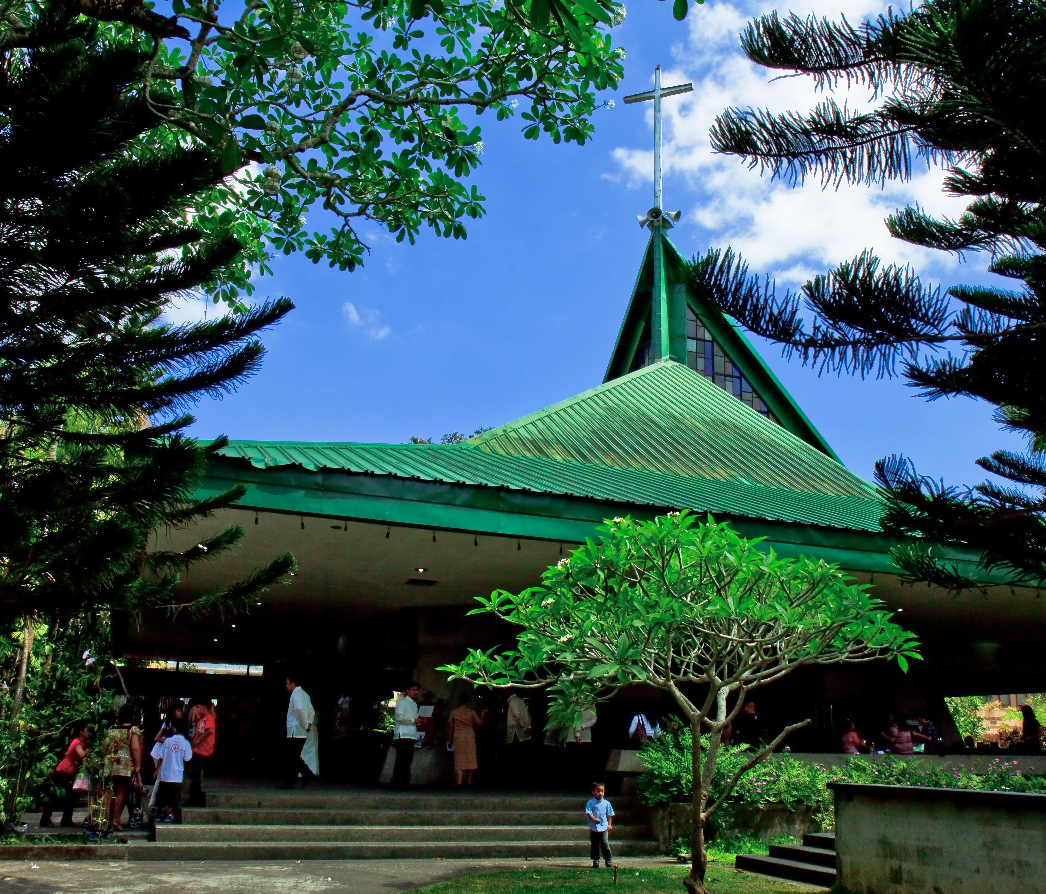 St. Therese of the Child Jesus Parish at UPLB